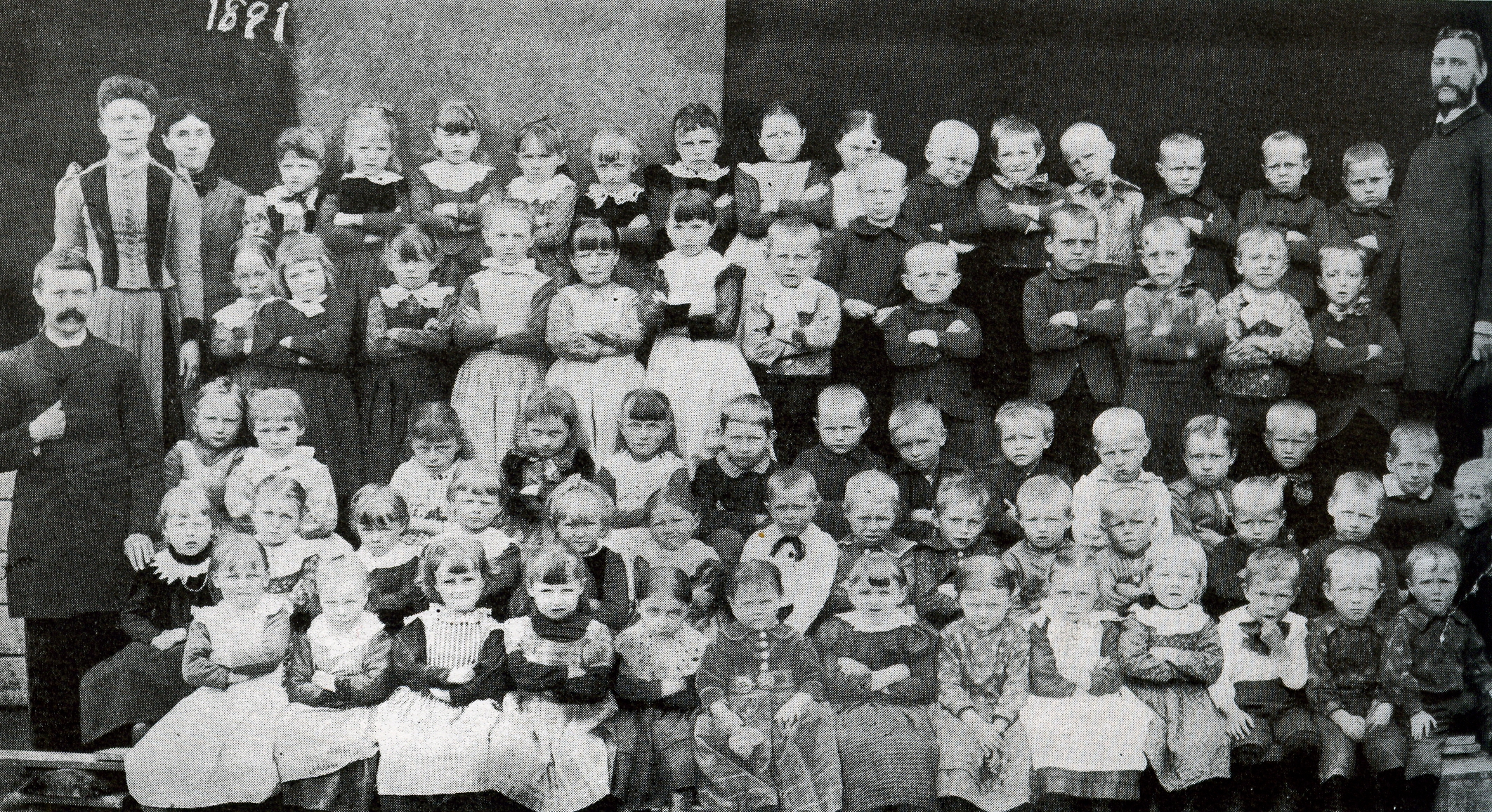 A class picture of Roseland Christian School from 1891.